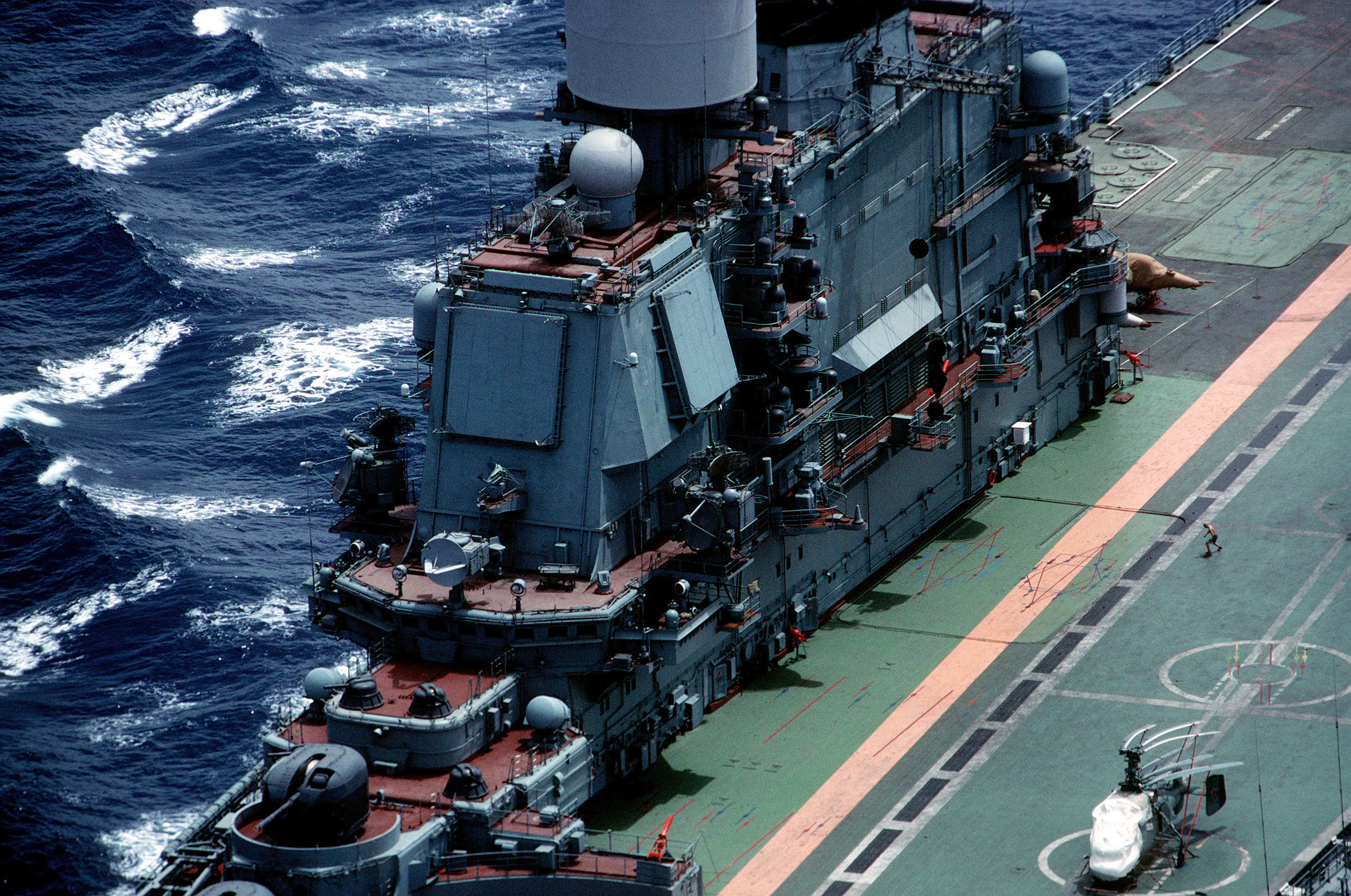 A view of the superstructure and radar equipment aboard the Soviet Kiev class VSTOL aircraft carrier Baku (CVHG-103). Radar installations on the Baku exhibit extensive technological changes from the other three Kiev class carriers. A covered Ka-27 Helix helicopter is parked on deck.